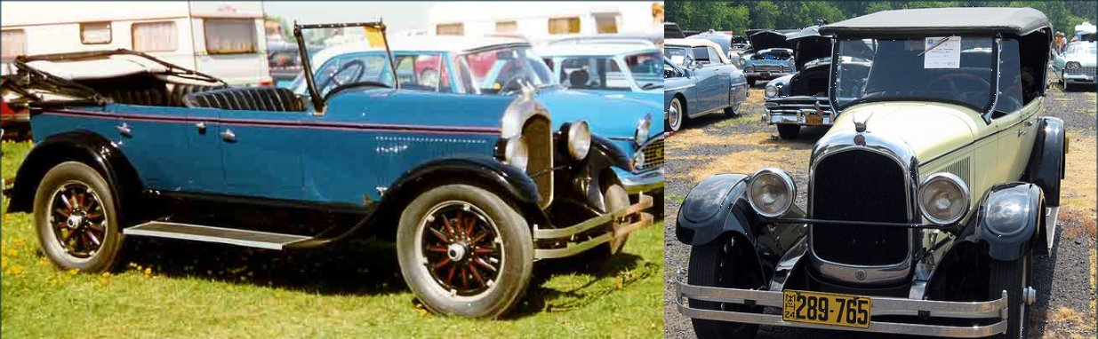 Derivative work of "File:2609 1924 Chrysler B-70 Touring Car" and "File:Chrysler 70 Touring 1924" jpg